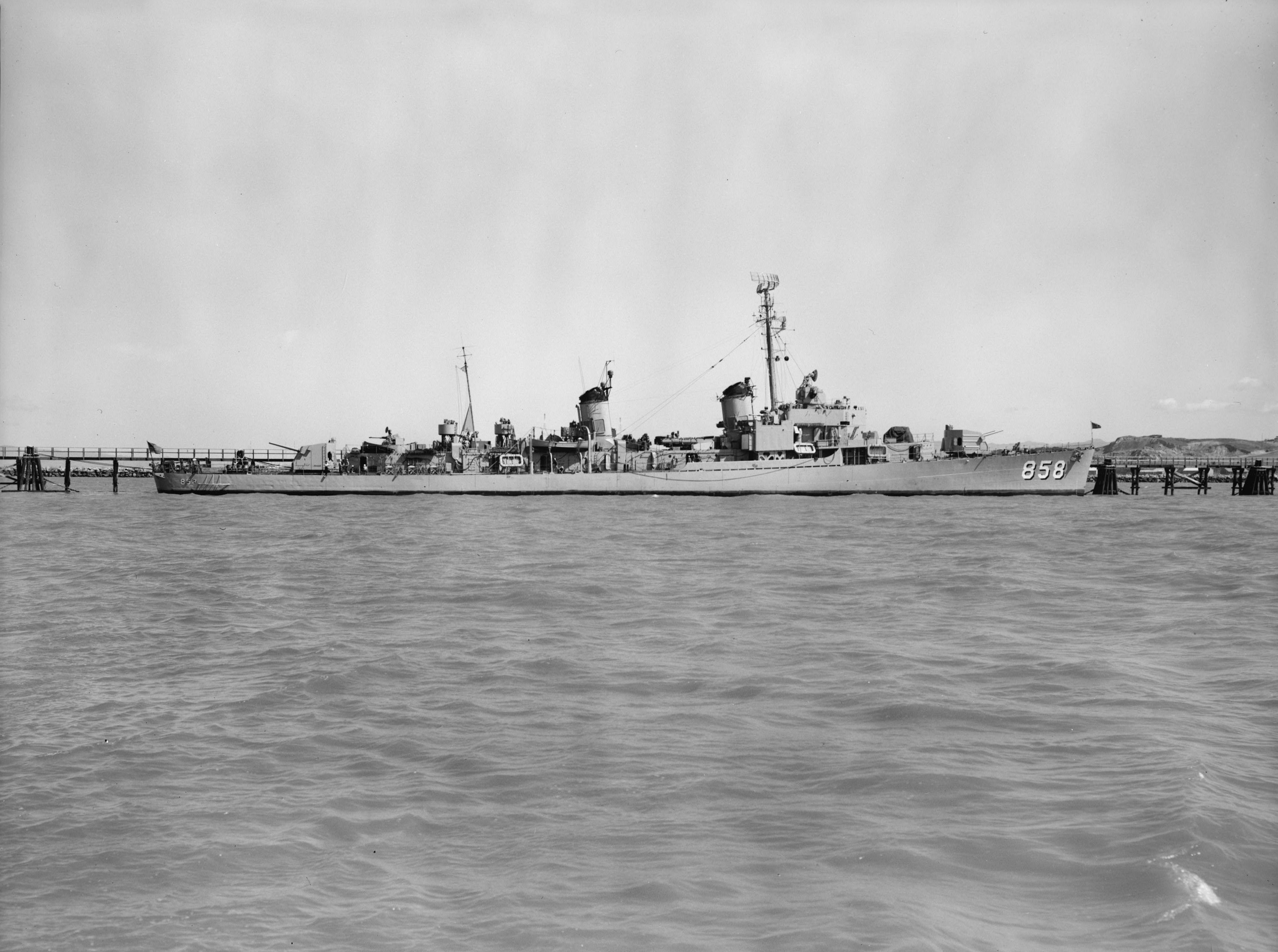 The U.S. Navy destroyer USS Fred T. Berry (DDE-858) off the Mare Island Naval Shipyard, California (USA), on 29 April 1949. She was under repair at Mare Island form 4 January to 16 May 1949.